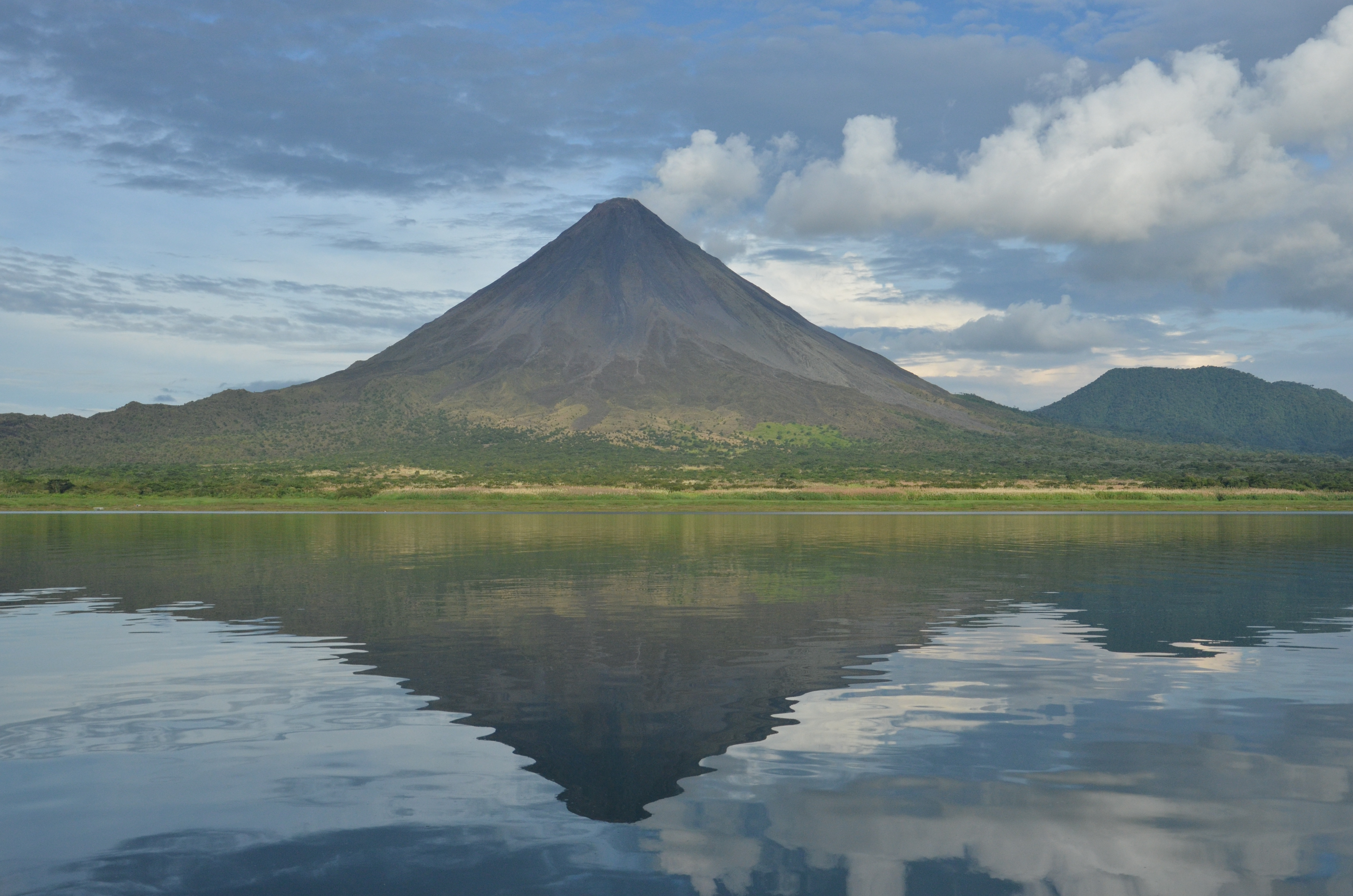 Arenal volcano from lake Arenal, La Fortuna.